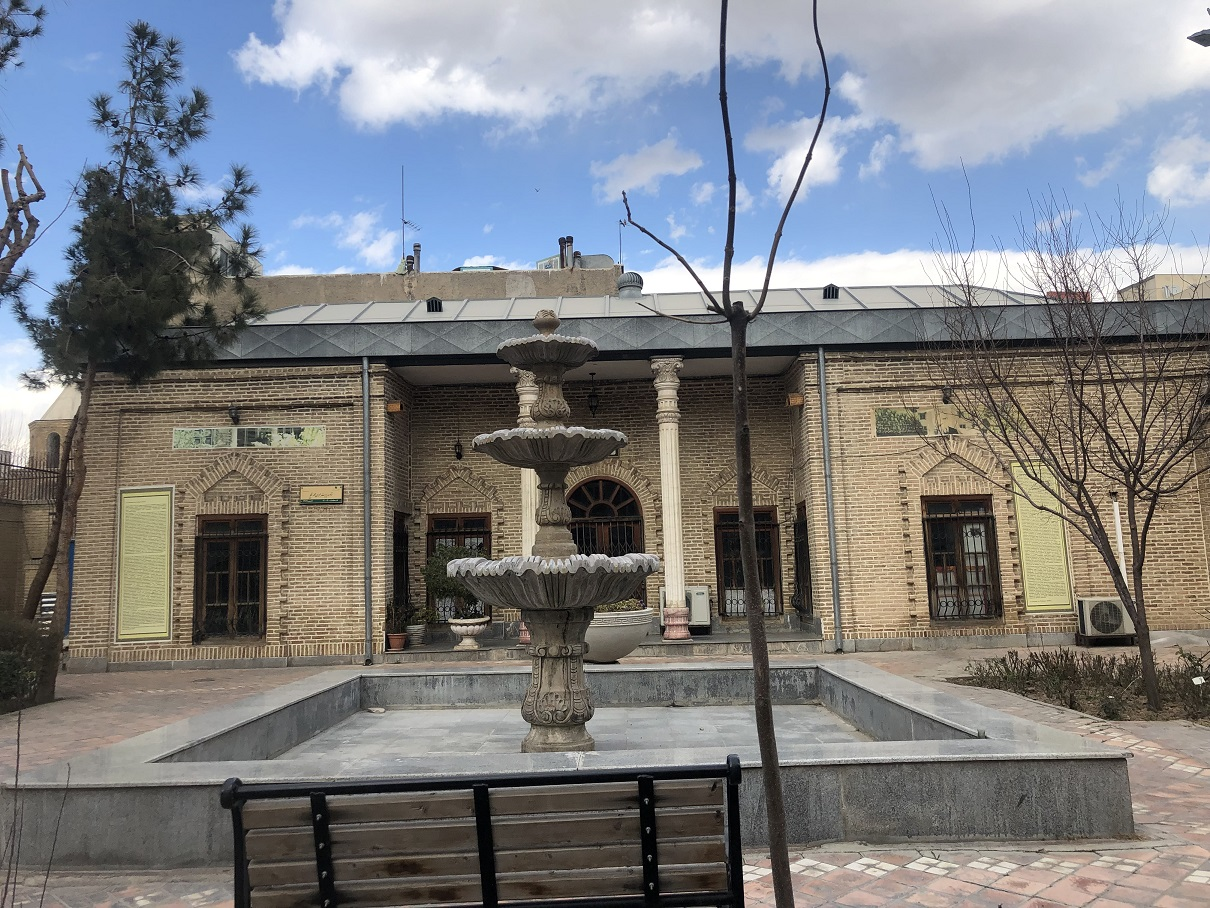 Mahmoud Hessaby birthplace in Sangelaj